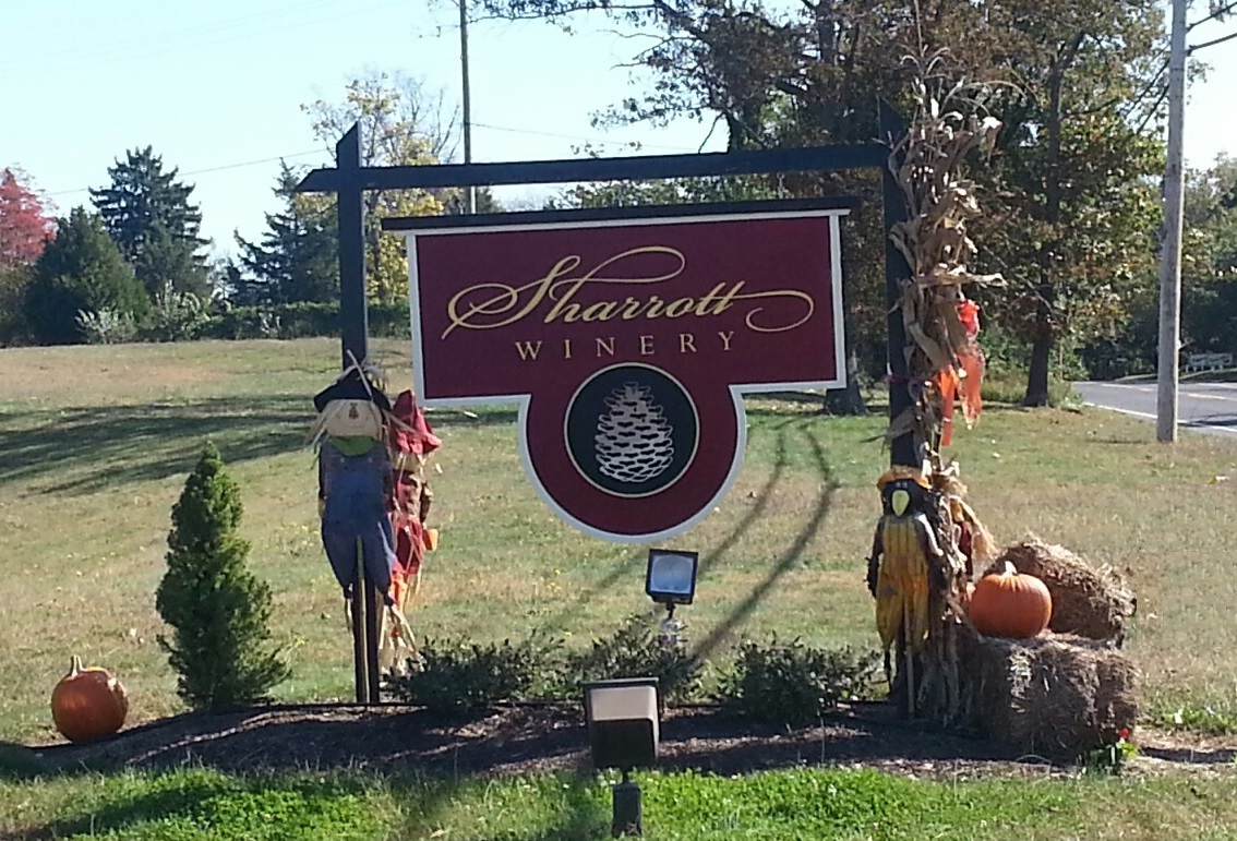 A picture of the sign at the entrance of Sharrott Winery in Blue Anchor, NJ. Decorated here for the autumn season, many events are held throughout the year at Sharrott Winery.